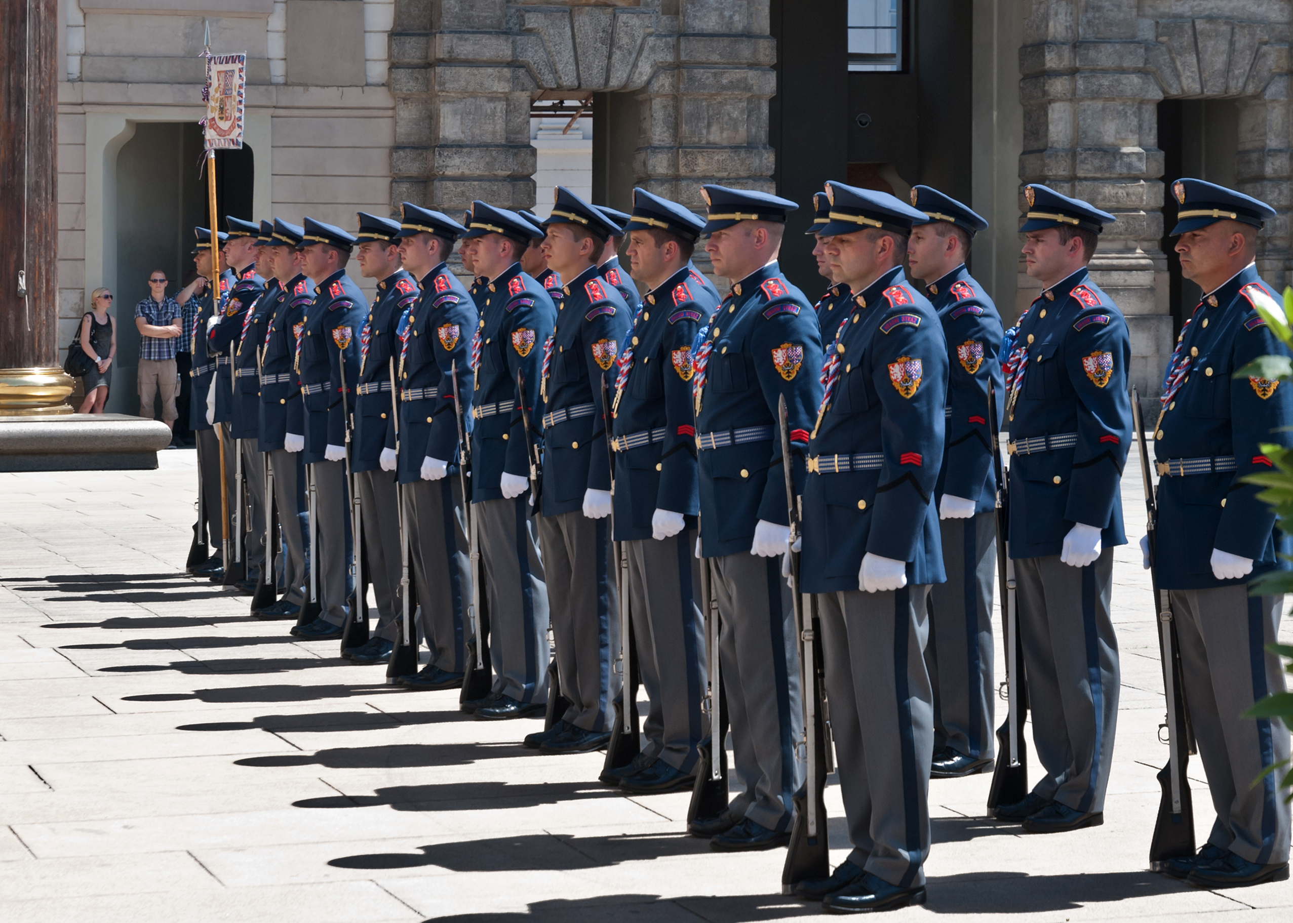 Checks of guard, Hradčany, Prague